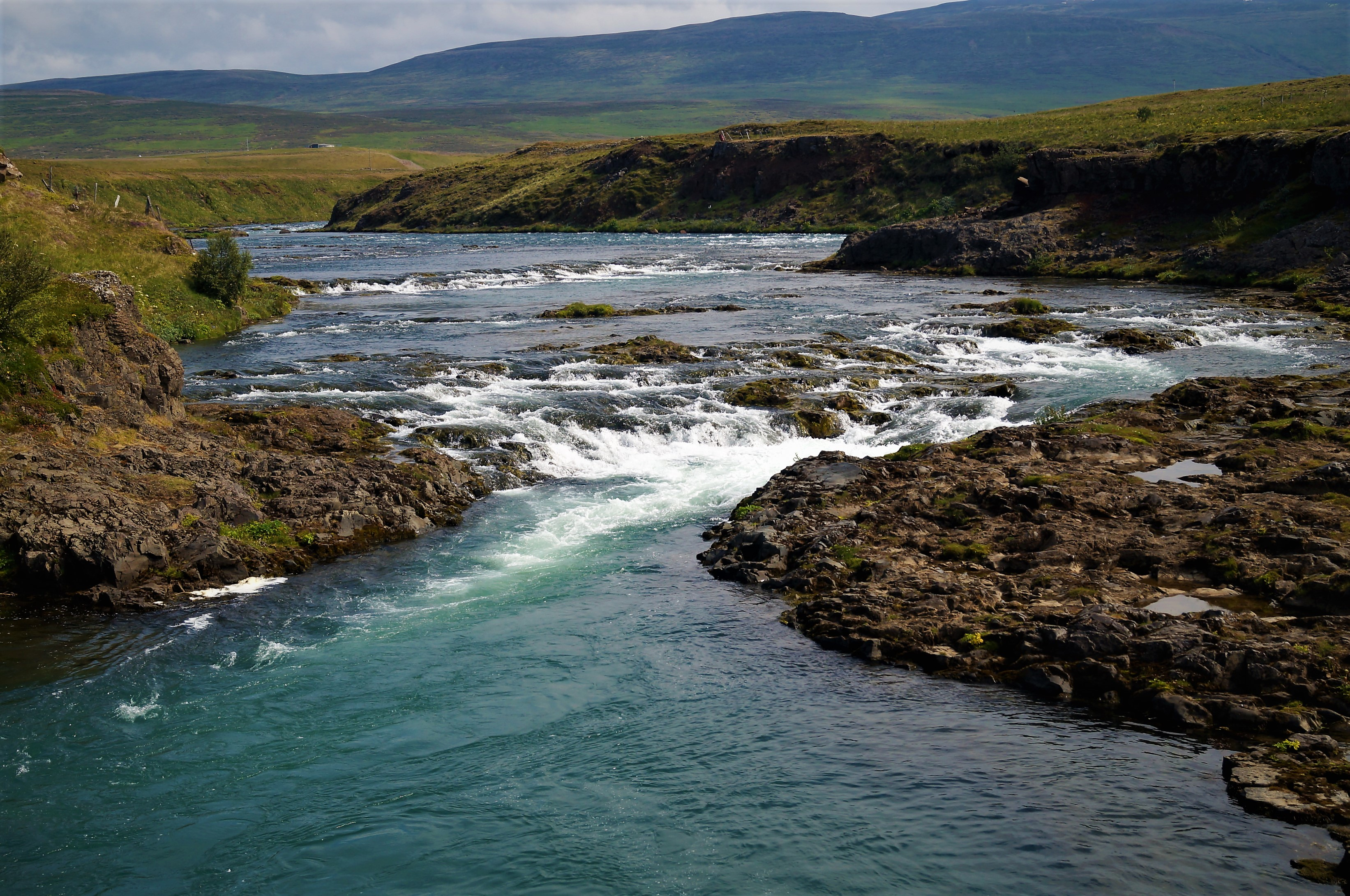 Blanda in Blönduós